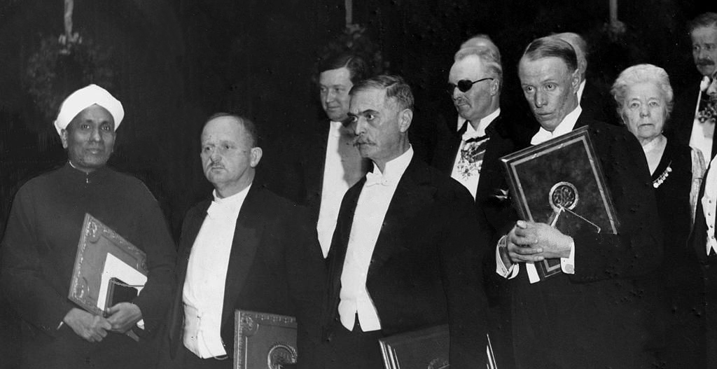 NOBEL PRIZE WINNER 1930 from left Venkata Raman (physics), Hans Fischer (chemistry), Karl Landsteiner (medicine) and Sinclair Lewis (literature).